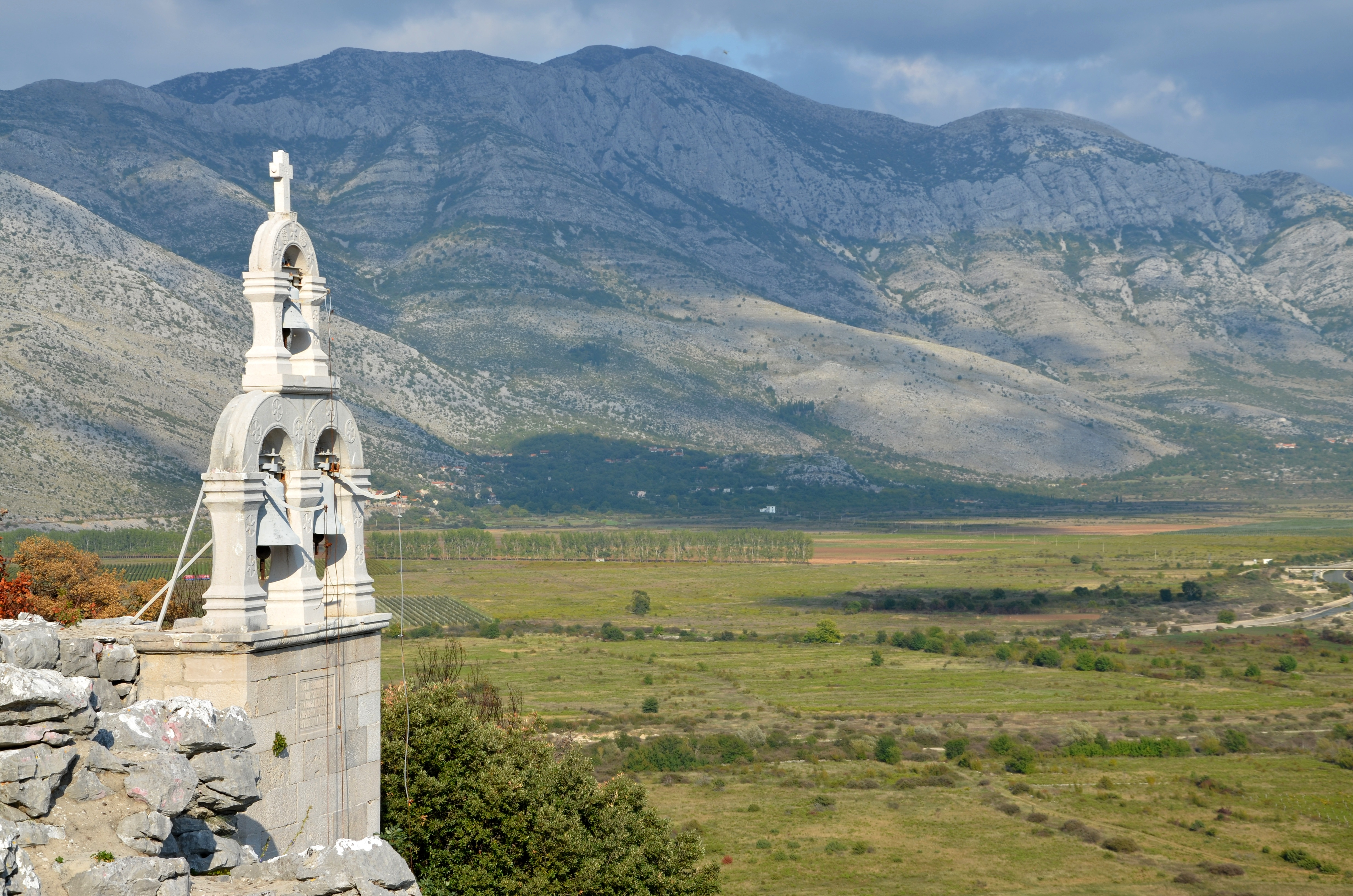 Сликава е подигната во рамките на проектот „По трагата на душата 2015“.